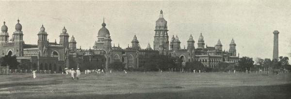 An extensive and imposing building of red brick. The lighthouse above the central dome has replaced the now dismantled lighthouse tower seen on the right.